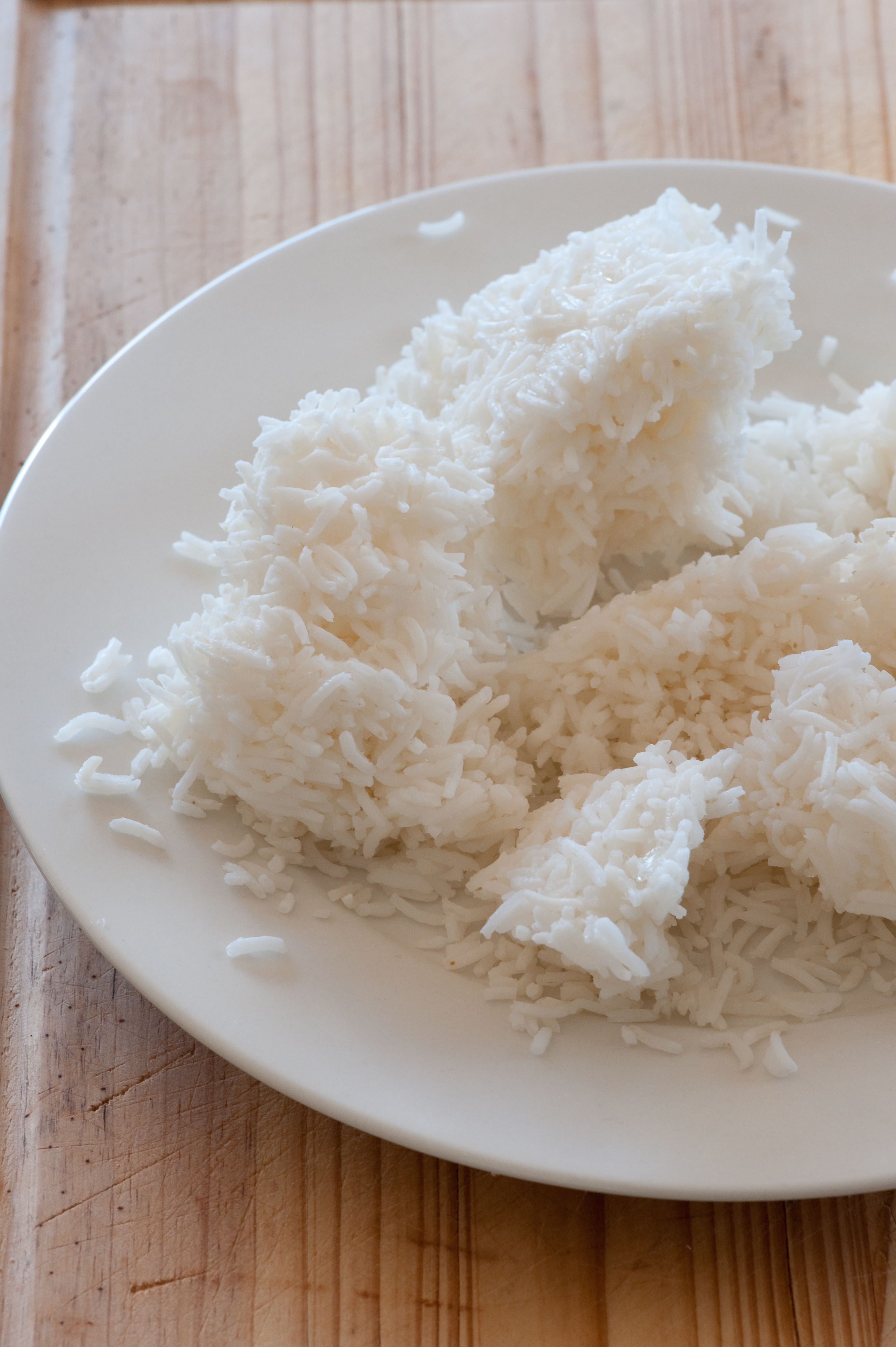 Frozen rice.